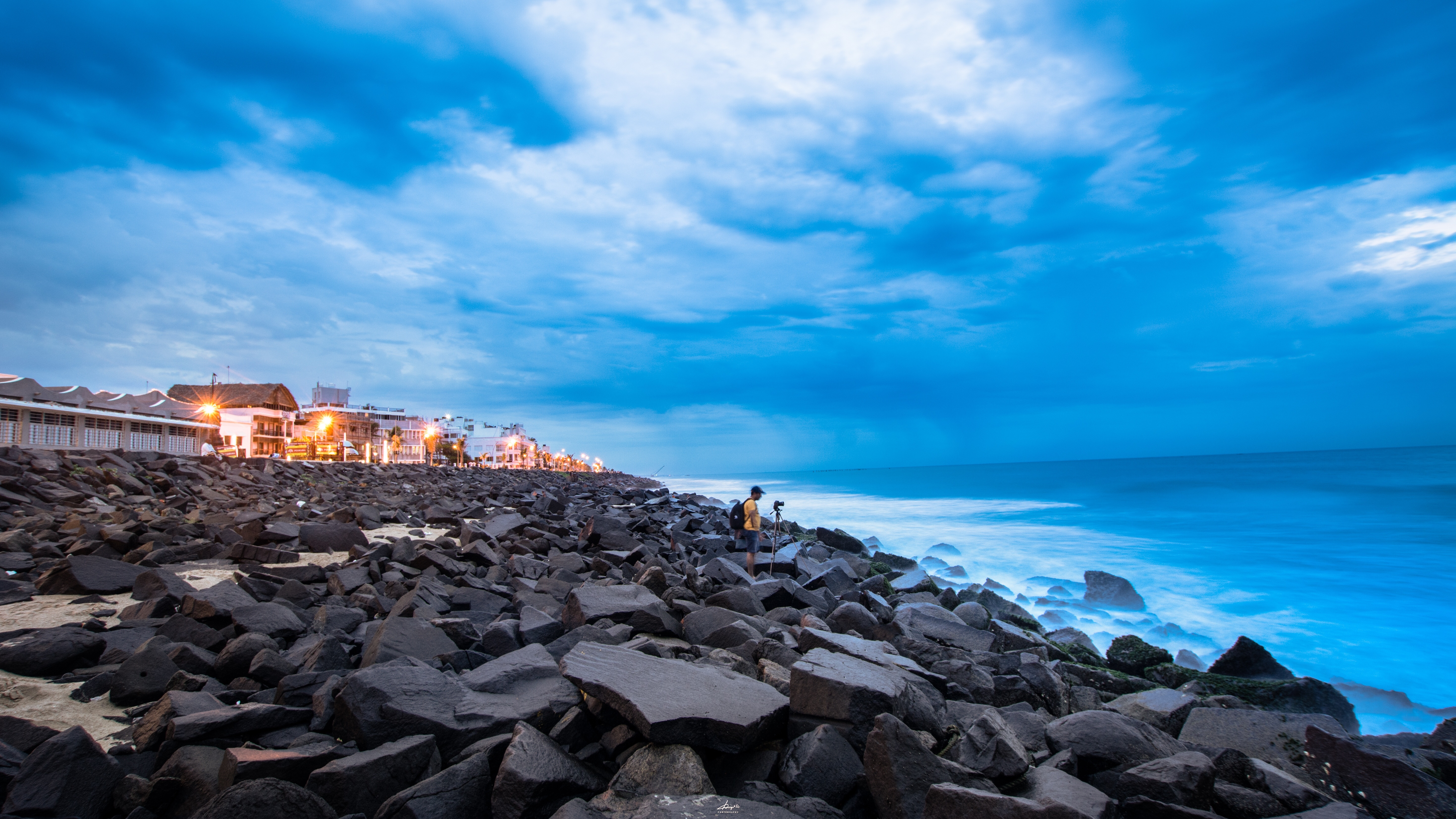 Long exposure shot of Beach road during sunset near Pondicherry harbour